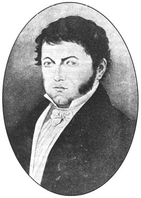 Portrait of Henry Delano Fitch of the Carrillo-Fitch elopement